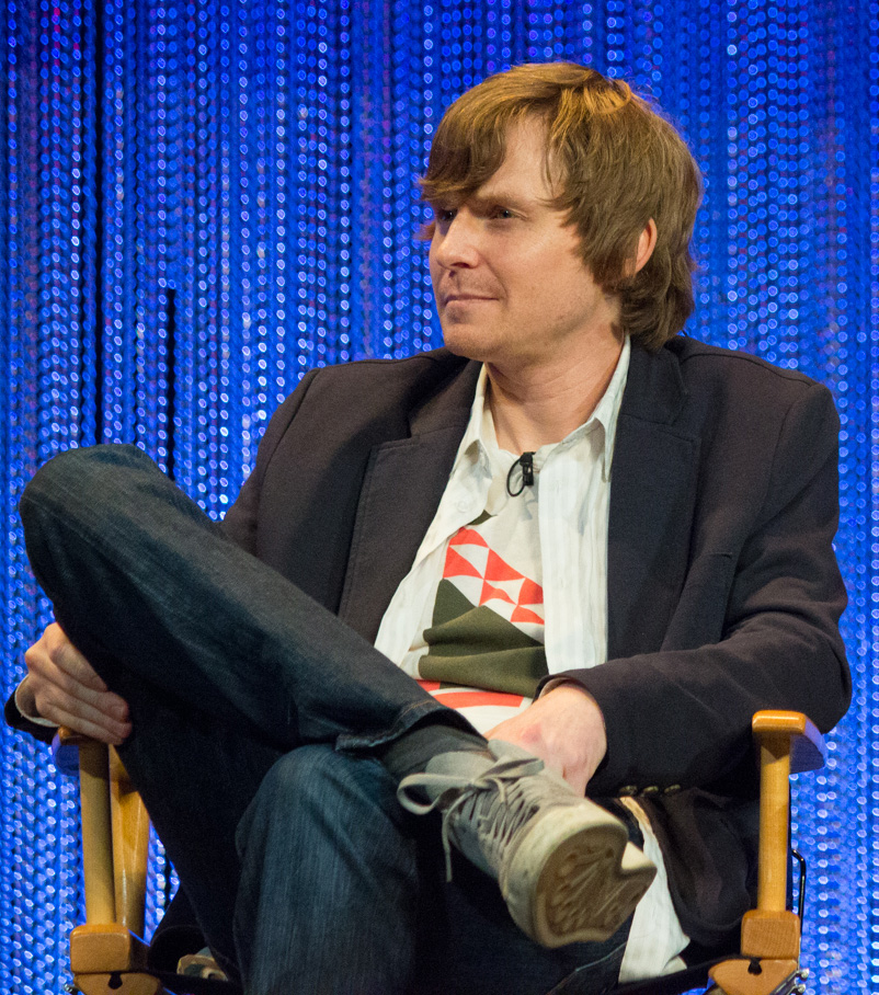 Jed Whedon at PaleyFest 2014